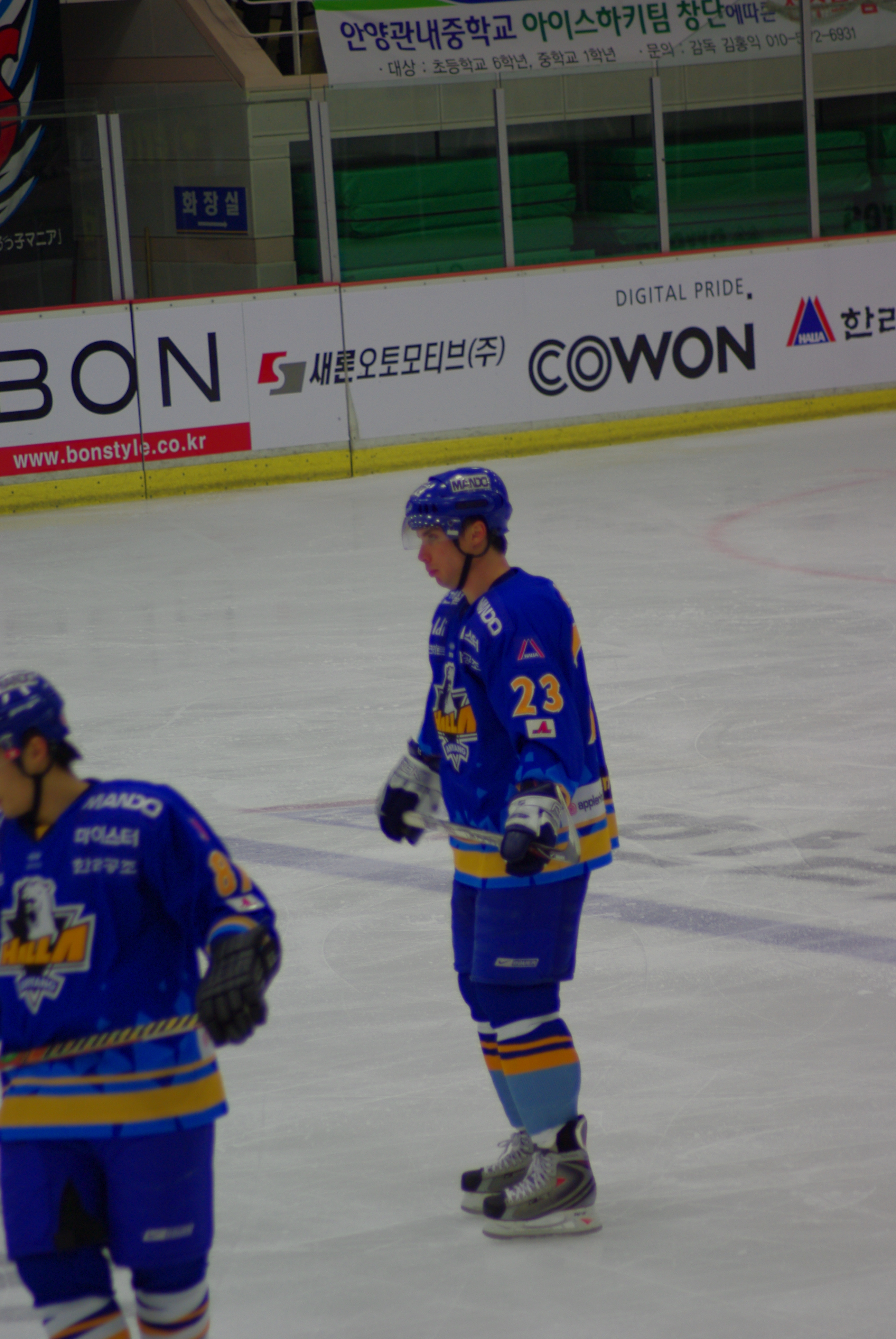 Dustin Wood playing for Anyang Halla.